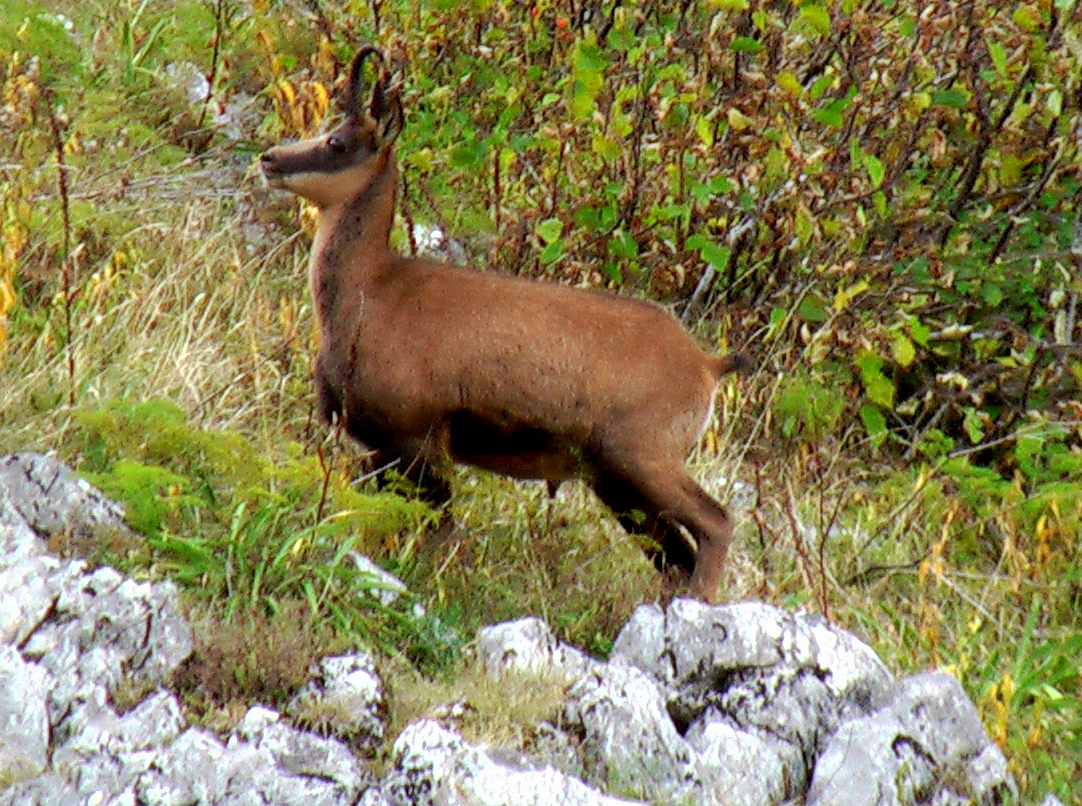 Rupicapra pyrenaica parva, Picos de Europa.